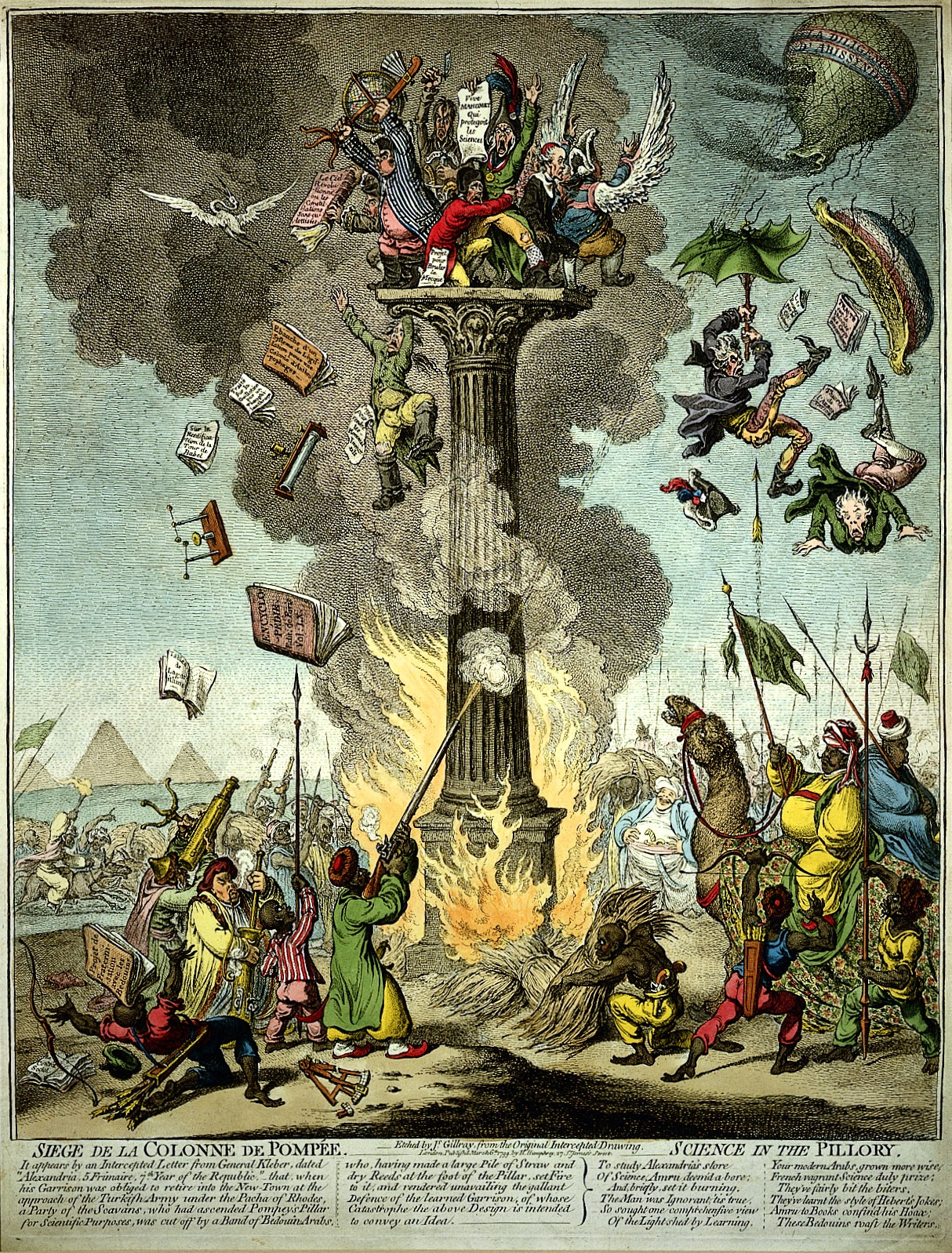 A group of French savants huddle together at the top of a column, while a band of Bedouin Arabs set fire to it below; exaggerating the troubled experience of the accompanying 'Commission des Sciences et des Arts' during Napoléon's invasion of Egypt. Coloured etching by J. Gillray after himself, 1799. Iconographic Collections Keywords: Gaspard Monge; Claude Louis Berthollet; Constantin Francois Volney; Napoléon I; Jean-Baptiste-Joseph Fourier; Étienne Geoffroy Saint-Hilaire; Déodat de Gratet de Dolomieu; Nicolas-Antoine Nouet; Quesnot; Pierre Mechain; Maris Jules César Savigny; Pierre Joseph Redouté; Nicolas-René-Dufriche Desgenettes; Dominique-Jean Larrey; Commission des sciences et des arts (France); James Gillray